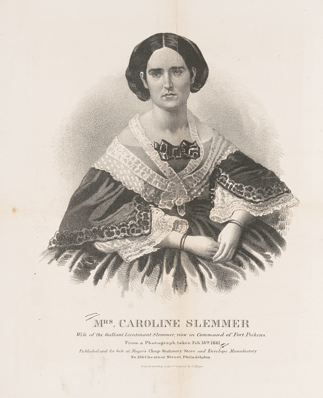 Title: Mrs. Caroline Slemmer wife of the gallant Lieutenant Slemmer, now in command of Fort Pickens. From a photograph taken Feb. 18th 1861 Abstract/medium: 1 print : lithograph.